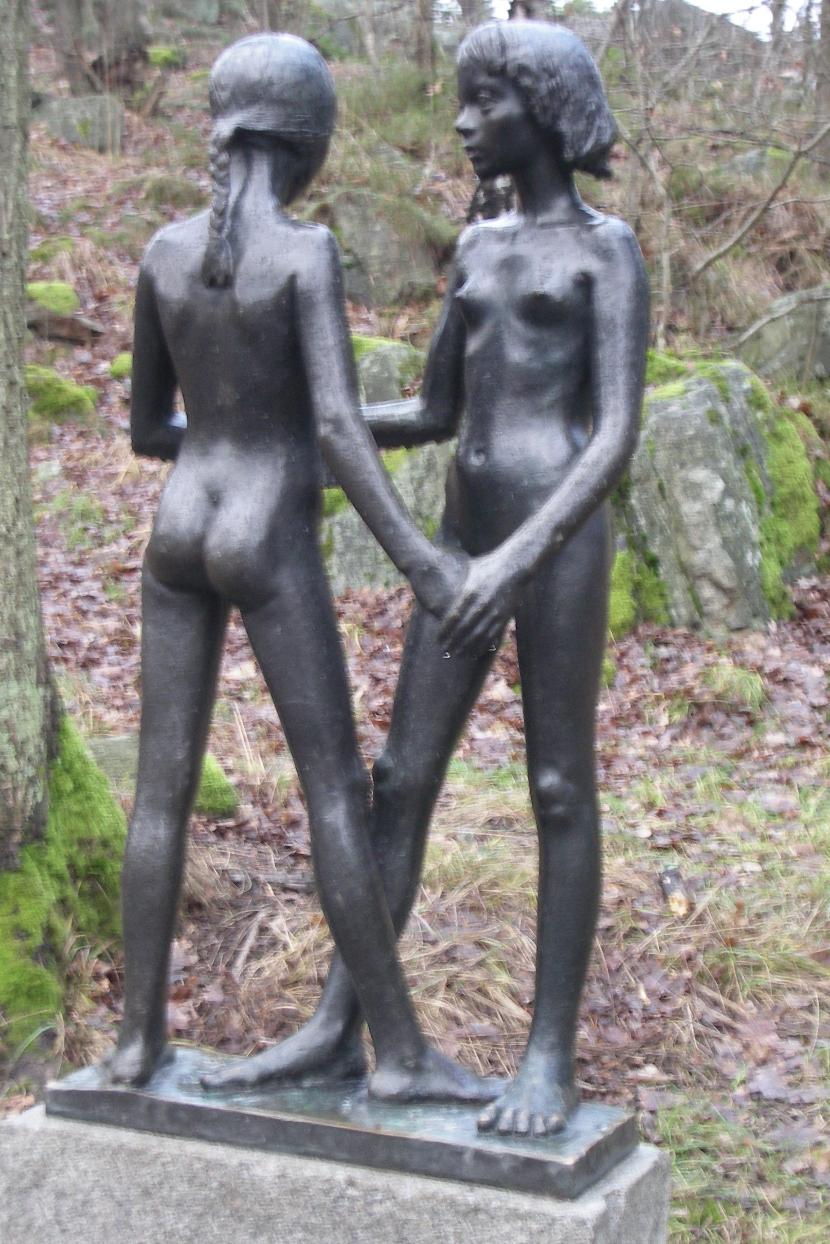 Stig Blomberg´s Systrarna, Västertorp, Stockholm, Sweden